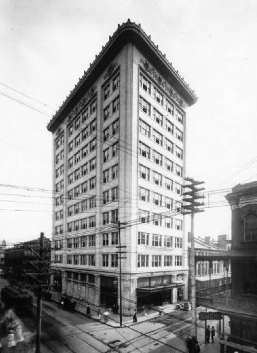 The Van Antwerp Building in 1907, soon after it was completed as Mobile's first skyscraper. Located at the corner of Dauphin and Royal Streets in downtown Mobile, Alabama.